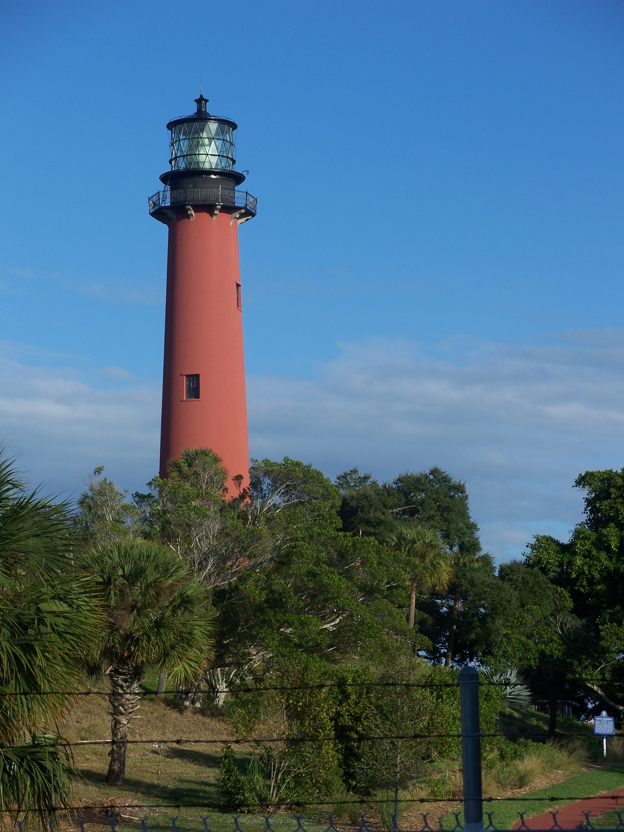 Jupiter, Florida: Jupiter Inlet Light